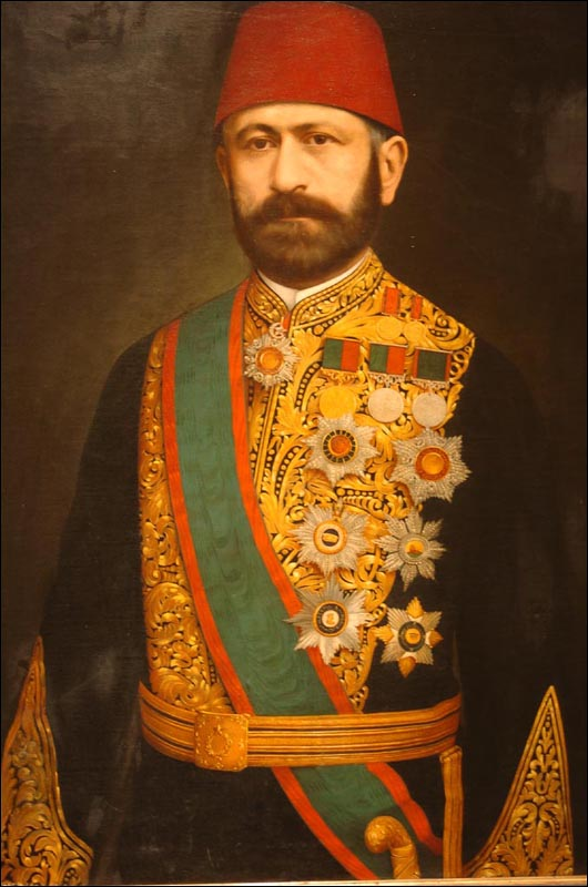 Mahmud Celaleddin Pasha was an Ottoman Statesman and a music composer (1839-1899). He served as a cabinet secretary in the Ottoman government as well as provincial governor.